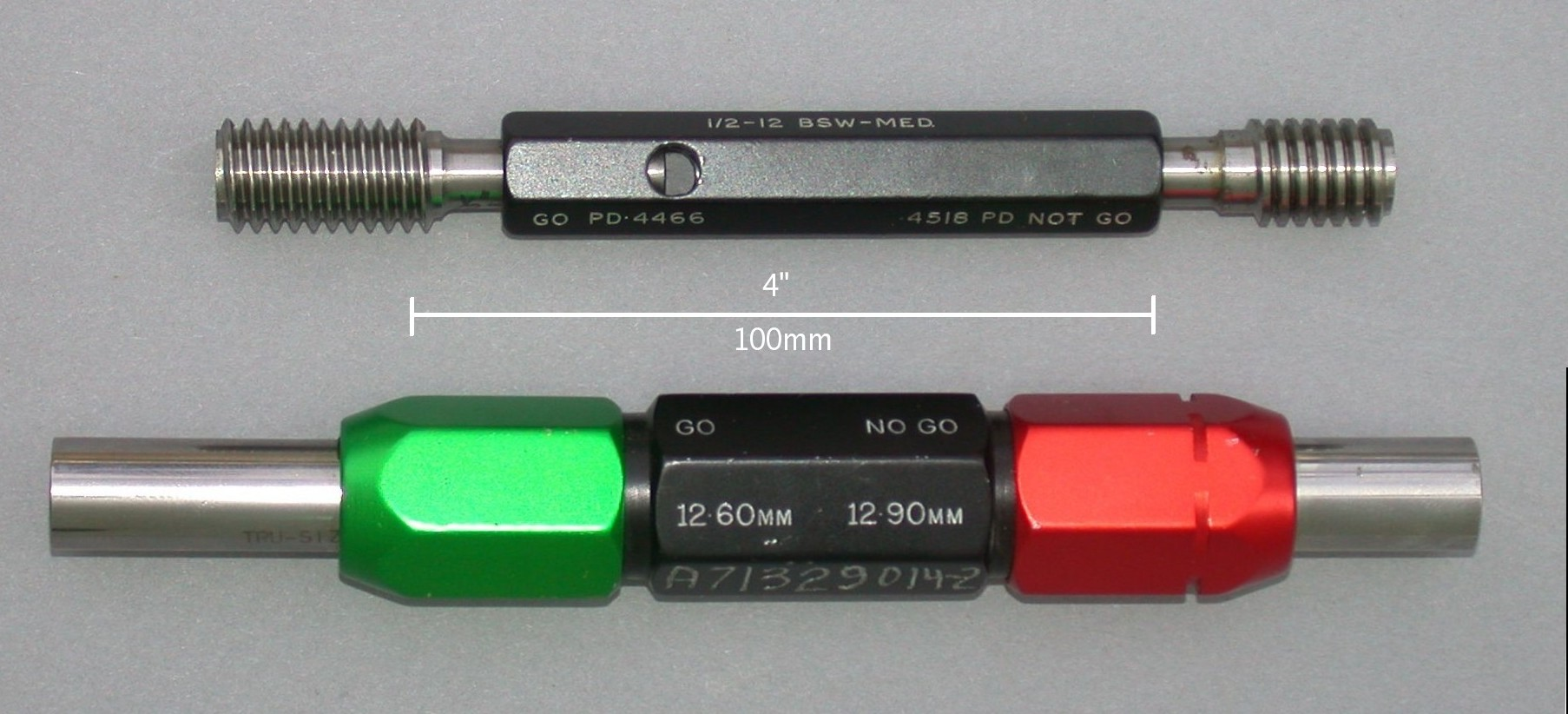 Go NoGo plug gauges with interchangable (replacable) ends. Top gauge is a thread gauge for 1/2 inch BSW. 'Go' end identifies a Pitch diameter of 0.4466" as optimum size, 'NoGo' identifies 0.4516 as the upper limit. Lower gauge is a plain plug gauge of 12.60mm for 'Go' and 12.90mm as 'NoGo' (etched number is a job identification number, probably the job sheet number of the manufactured part it checks)